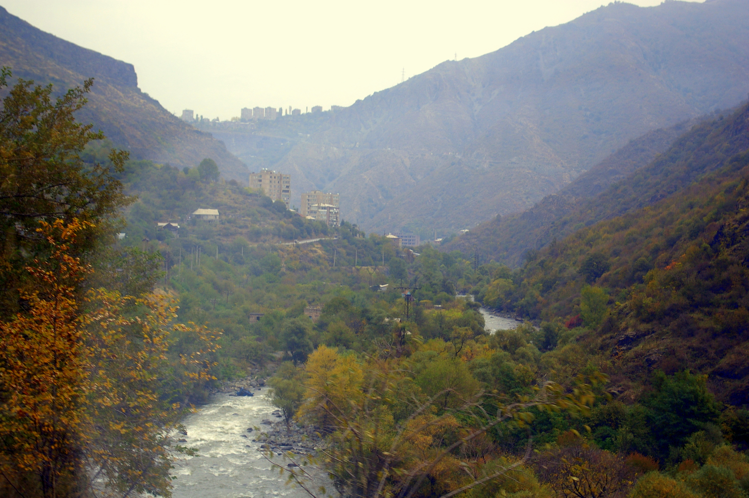 Debed river valley, Alaverdi, Armenia.